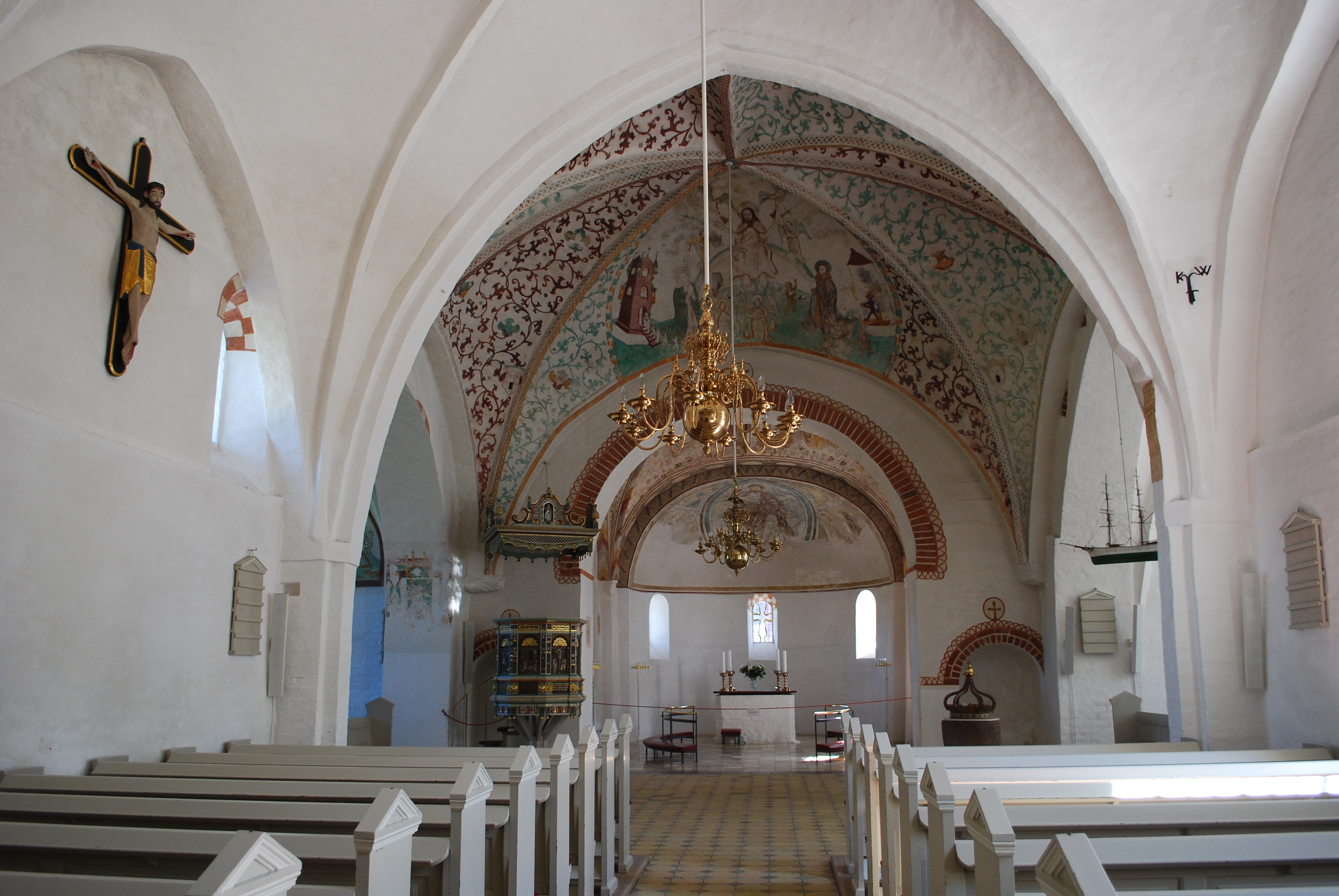 Broager Church, Jylland, Denmark